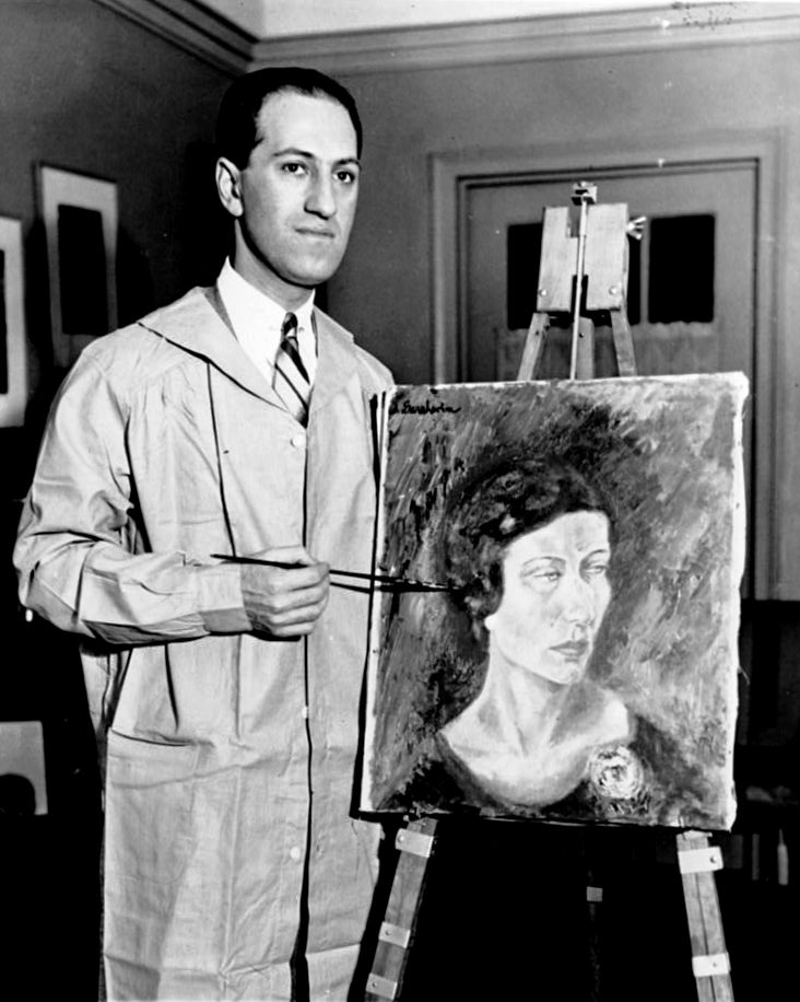 George Gershwin in his New York apartment with his first oil painting.